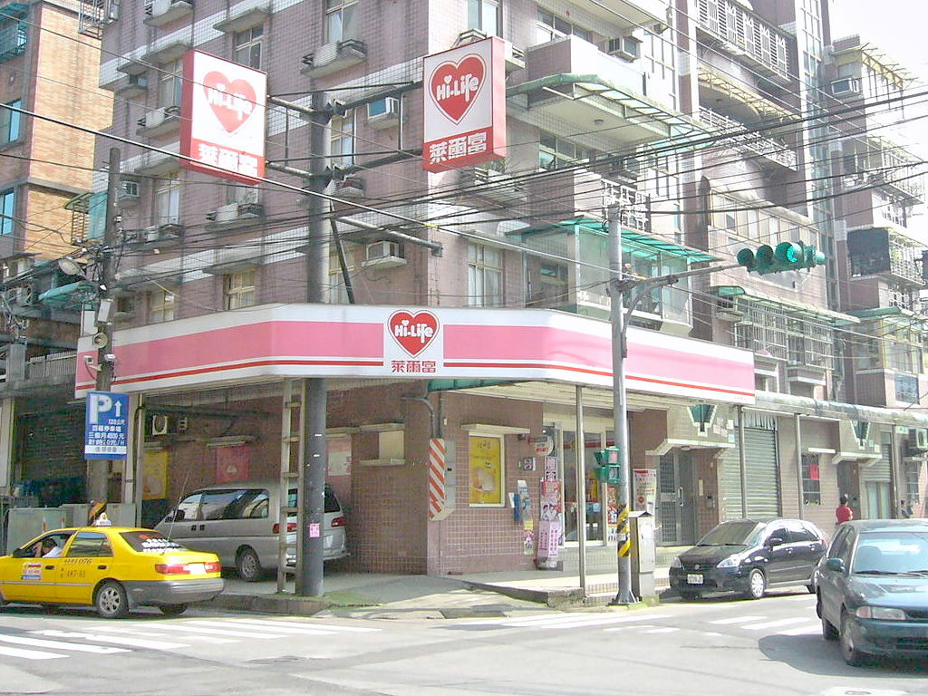 Hi-Life Keelung Lung-fu Store. 中文（台灣）: 萊爾富便利商店基隆隆福店，位於基隆市七堵區福一街170號1樓，2015年4月歇業並轉移至基隆七堵店。